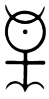 Dee's Hieroglyph.